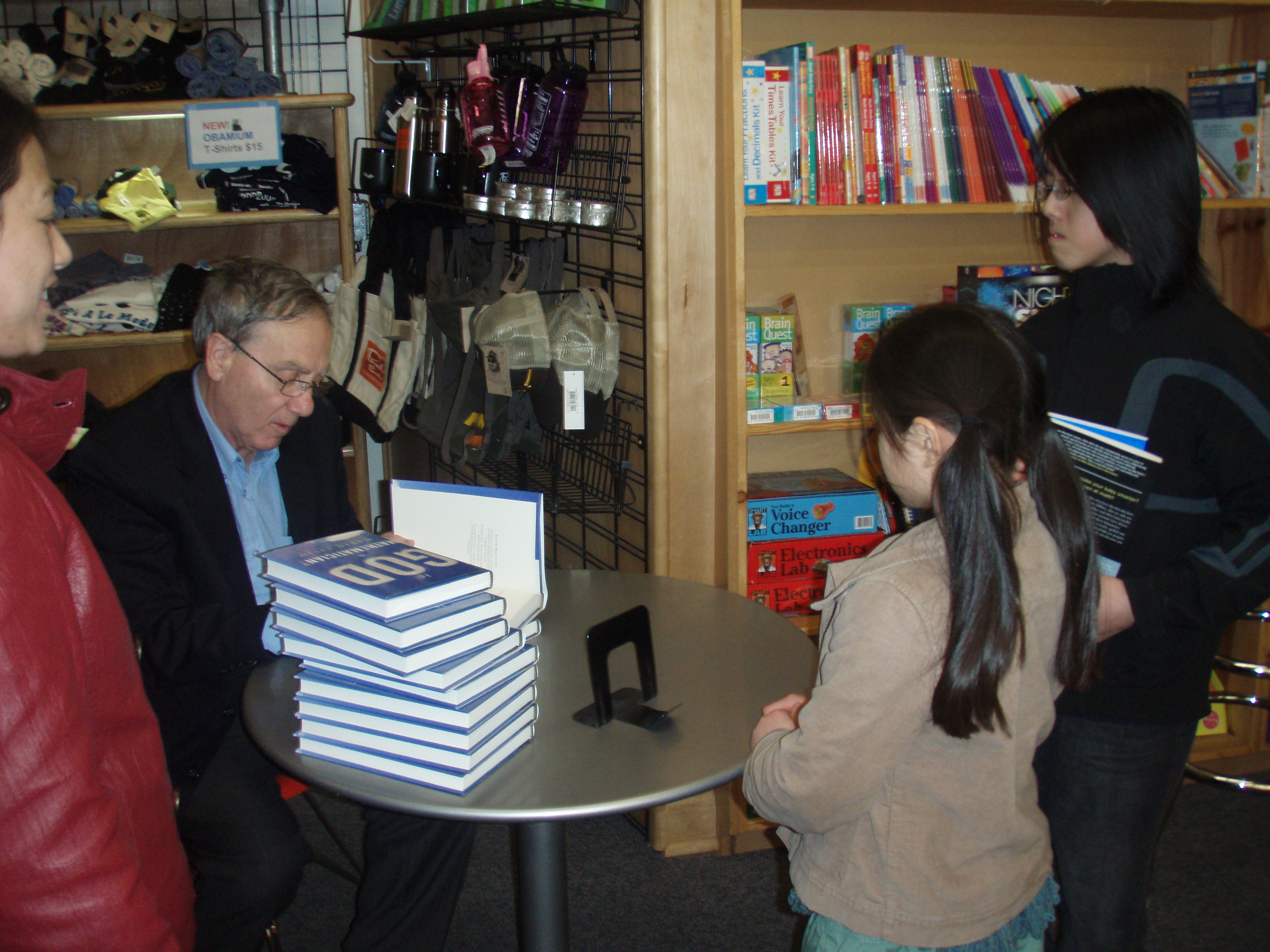 Mario Livio @ Powell's Technical, Feb 6 2009